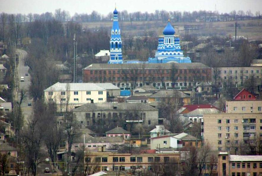 The city of Balta, Odessa Oblast, ukraine